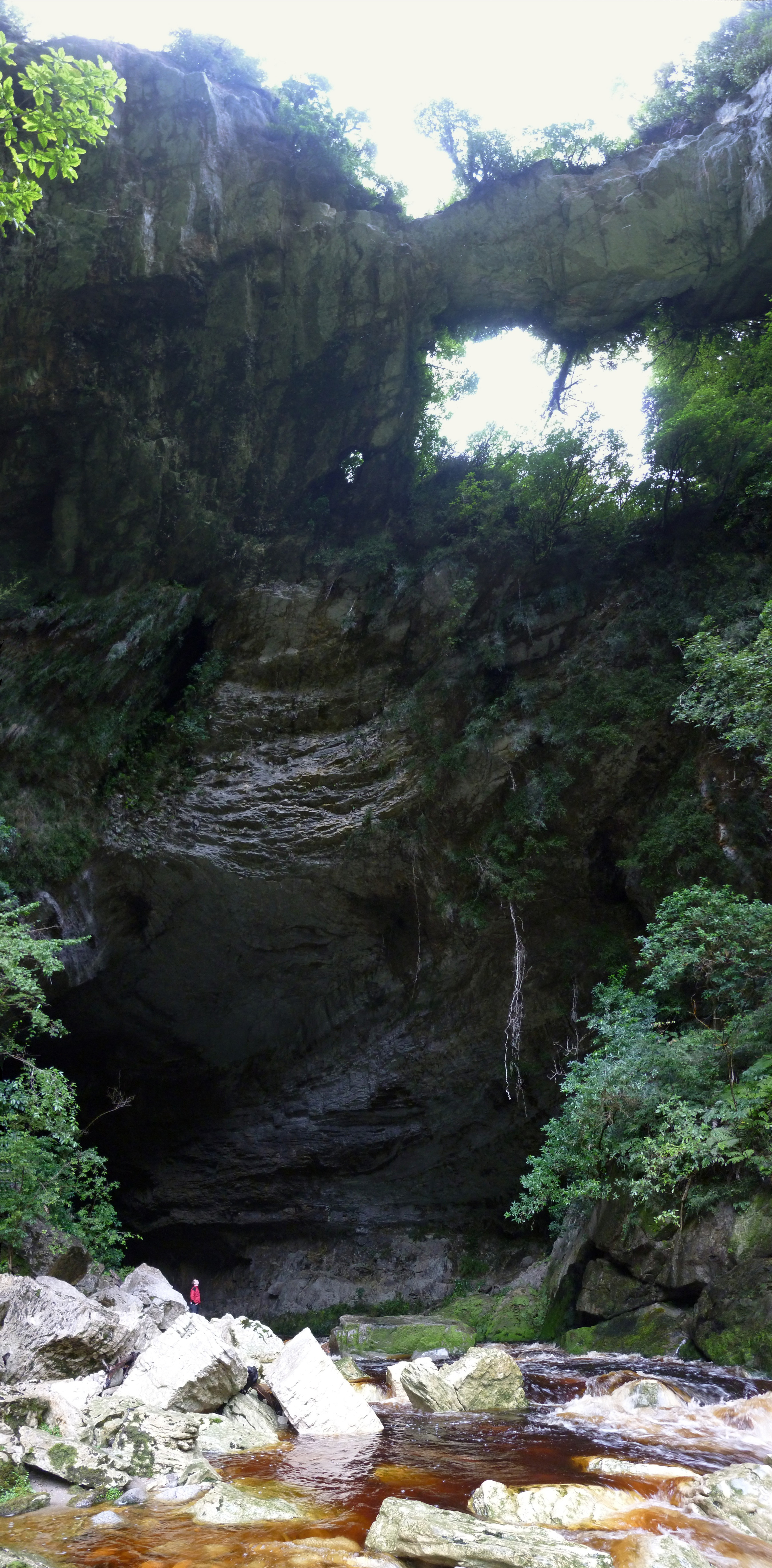 Panoramic view on the Oparara Arch, from downstream, West Coast, South Island, New Zealand. Panorama created with Hugin from 3 wide angle pictures (Panasonic ZX1). Note the person dressed in red in the middle left.